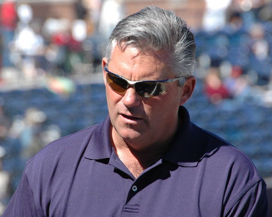 Padre's GM Kevin Towers takes questions from fans.